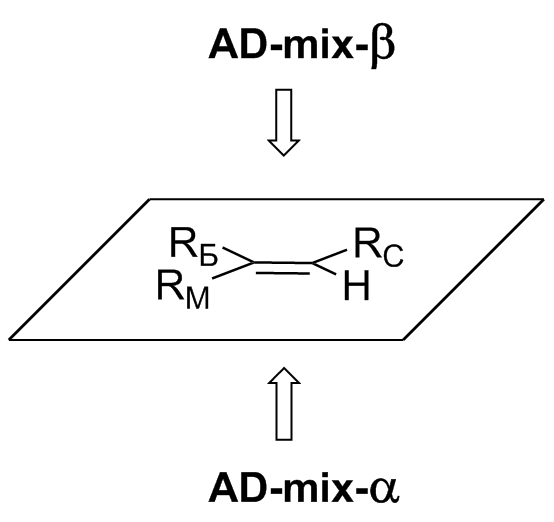 Ad-mix stereoselectivity